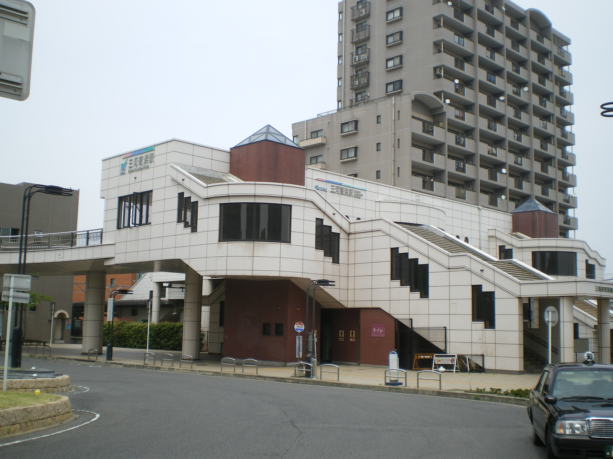 Nagoya Railroad Mikawa Line Mikawa Takahama Station West Gate